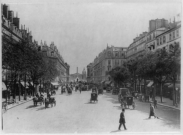 France - Paris - Looking down Rue Royale